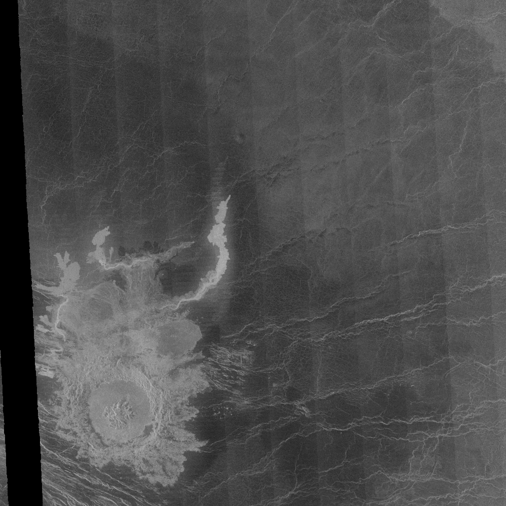 venus crater Ban Zhao